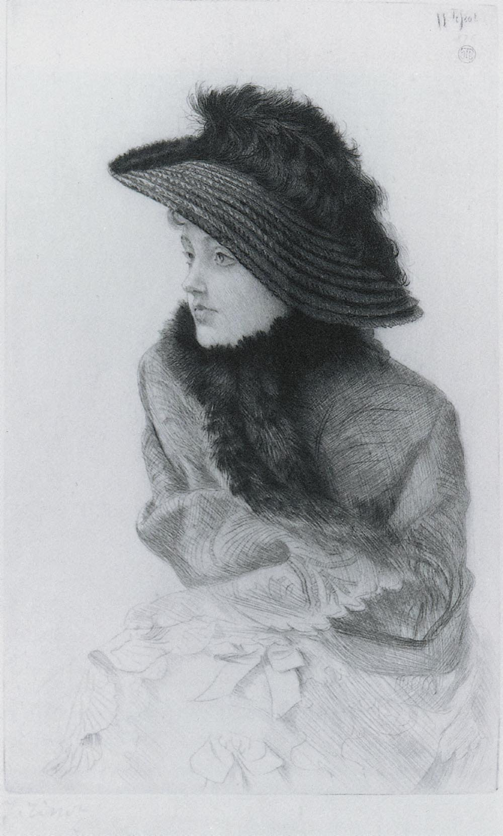 Portrait of M.N. (Portrait of Mrs. Newton)